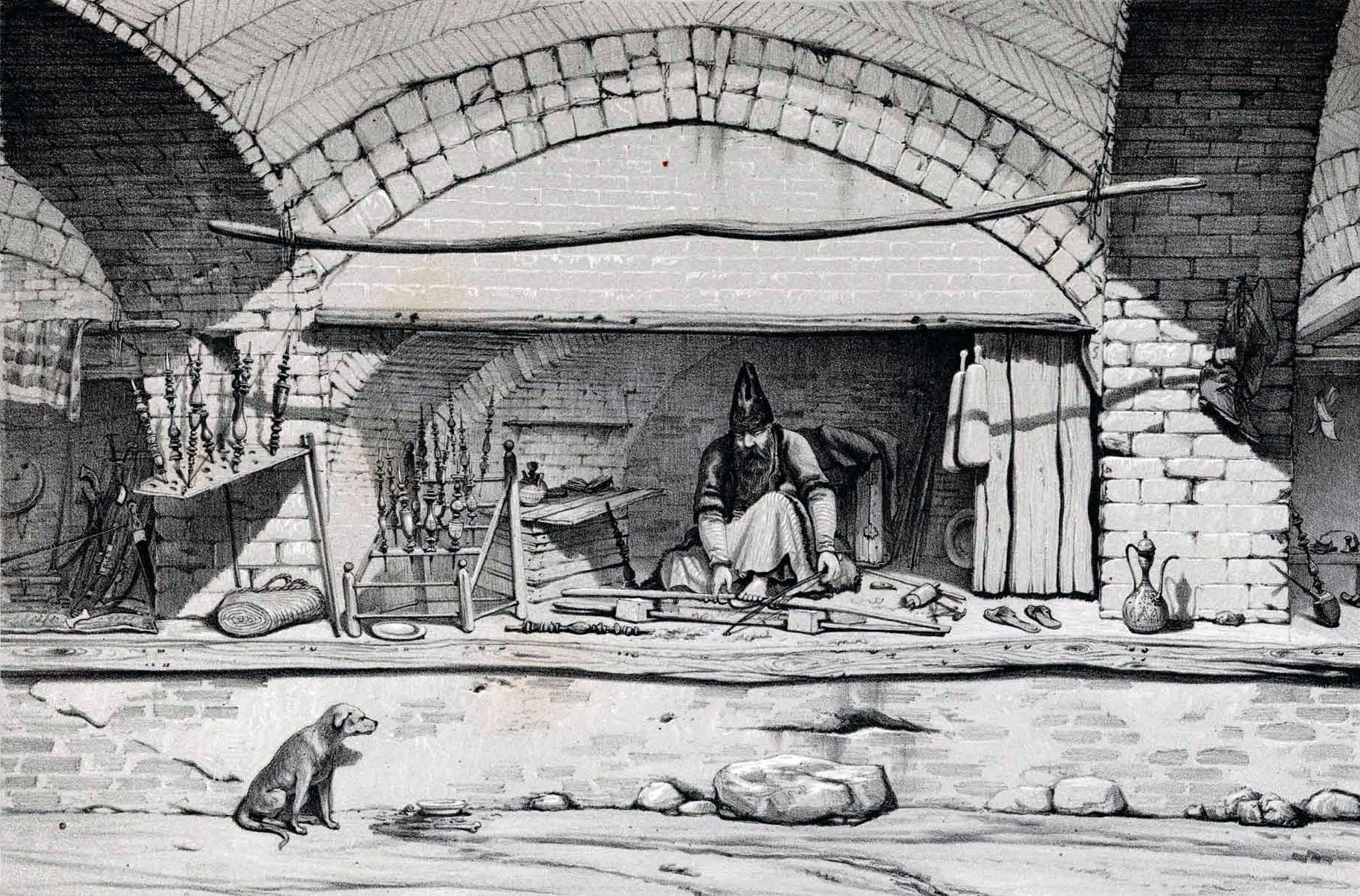 Turner Caliouns Tehran